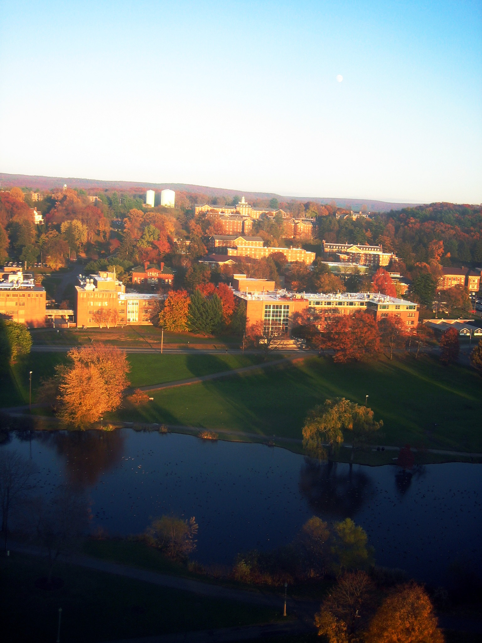 UMass at Amherst, picture taken from the W.E.B. Dubois Library